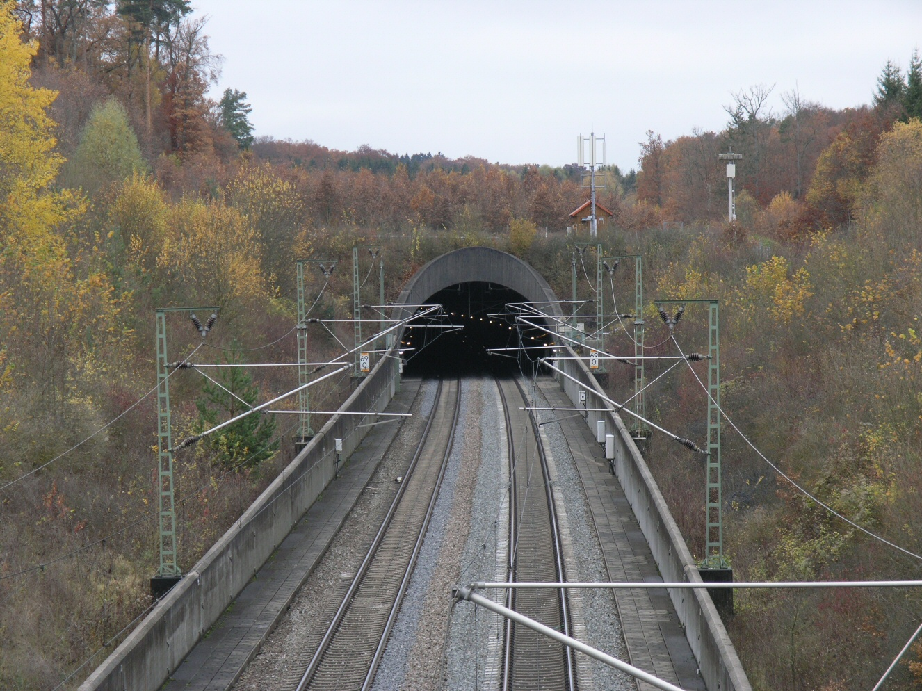 Eastern entrance to the Freudenstein Tunnel, Mannheim-Stuttgart high-speed railway line. On the right side above the entrance one can see antennas for public GSM, right to these an antenna for GSM-R